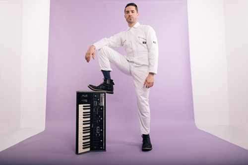 Luxley standing on Moog synth